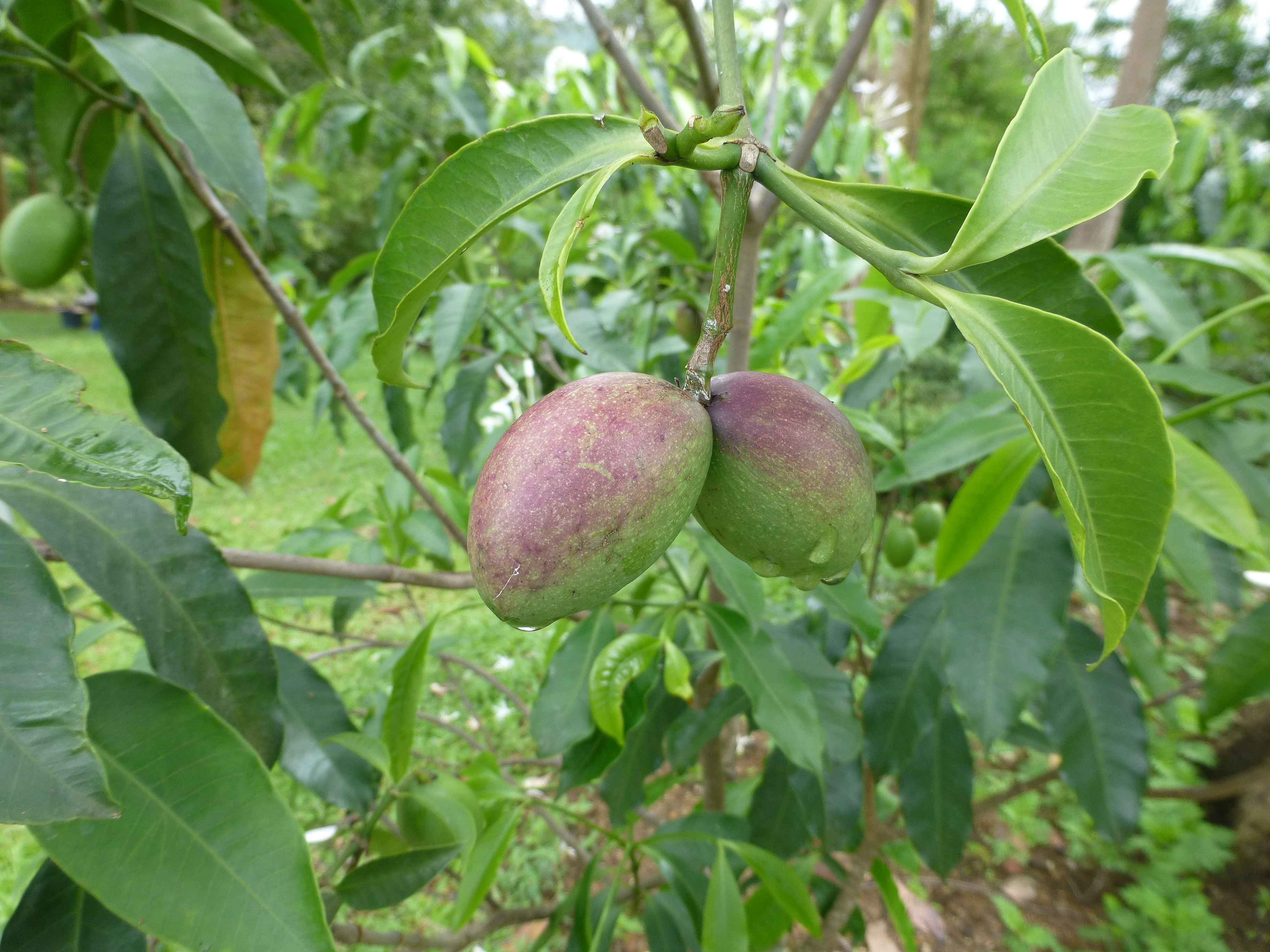 at the Queen Sirikit Botanic Garden - Chiang Mai in 2013